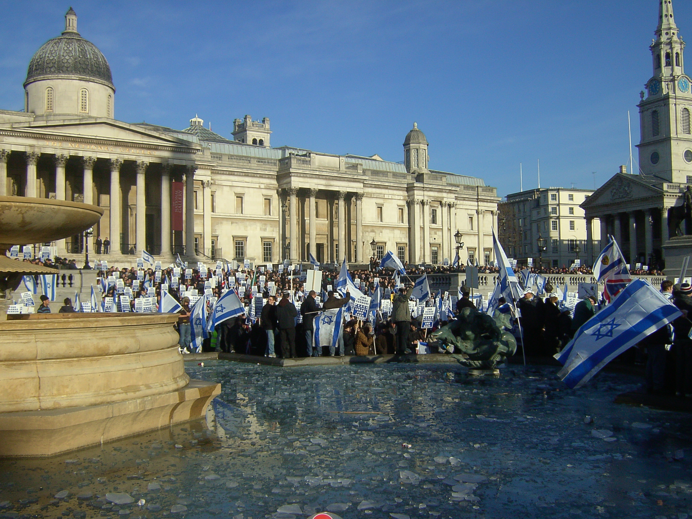 Israel peace rally, Trafalgar Square, London